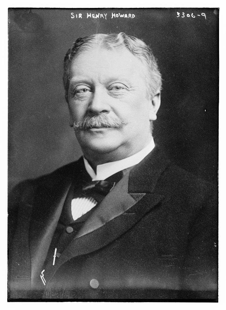 Photograph shows Sir Henry Howard who served as Envoy Extraordinary and Minister Plenipotentiary from Great Britain to the Vatican from 1914-1916, during World War I.